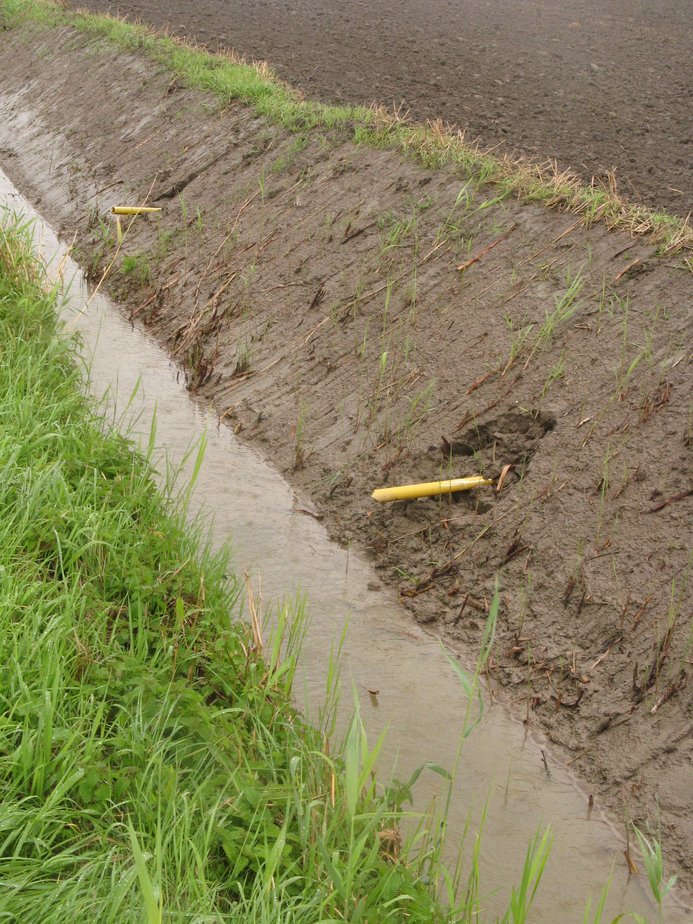 just cleaned drainage canal in Schülp, Dithmarschen, Germany